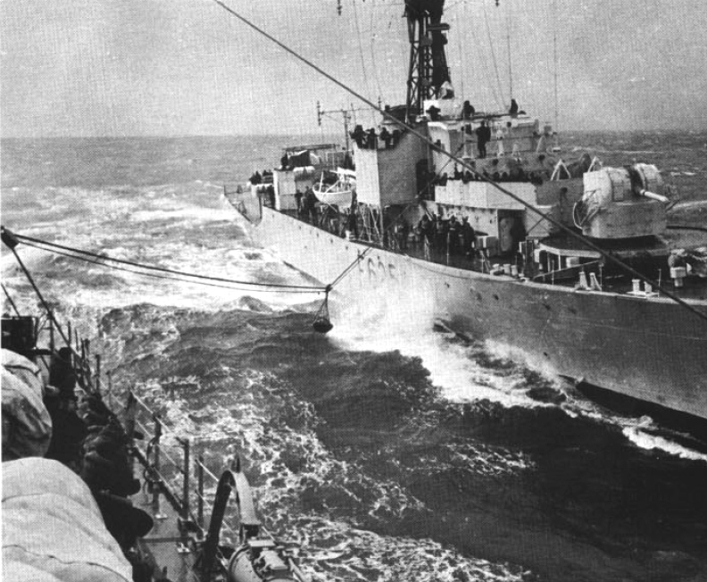 The Royal New Zealand Navy frigate HMNZS Rotoiti (F625) duing a high line tranfer with the U.S. Navy radar picket destroyer escort USS Hissem (DER-400), circa in 1964.